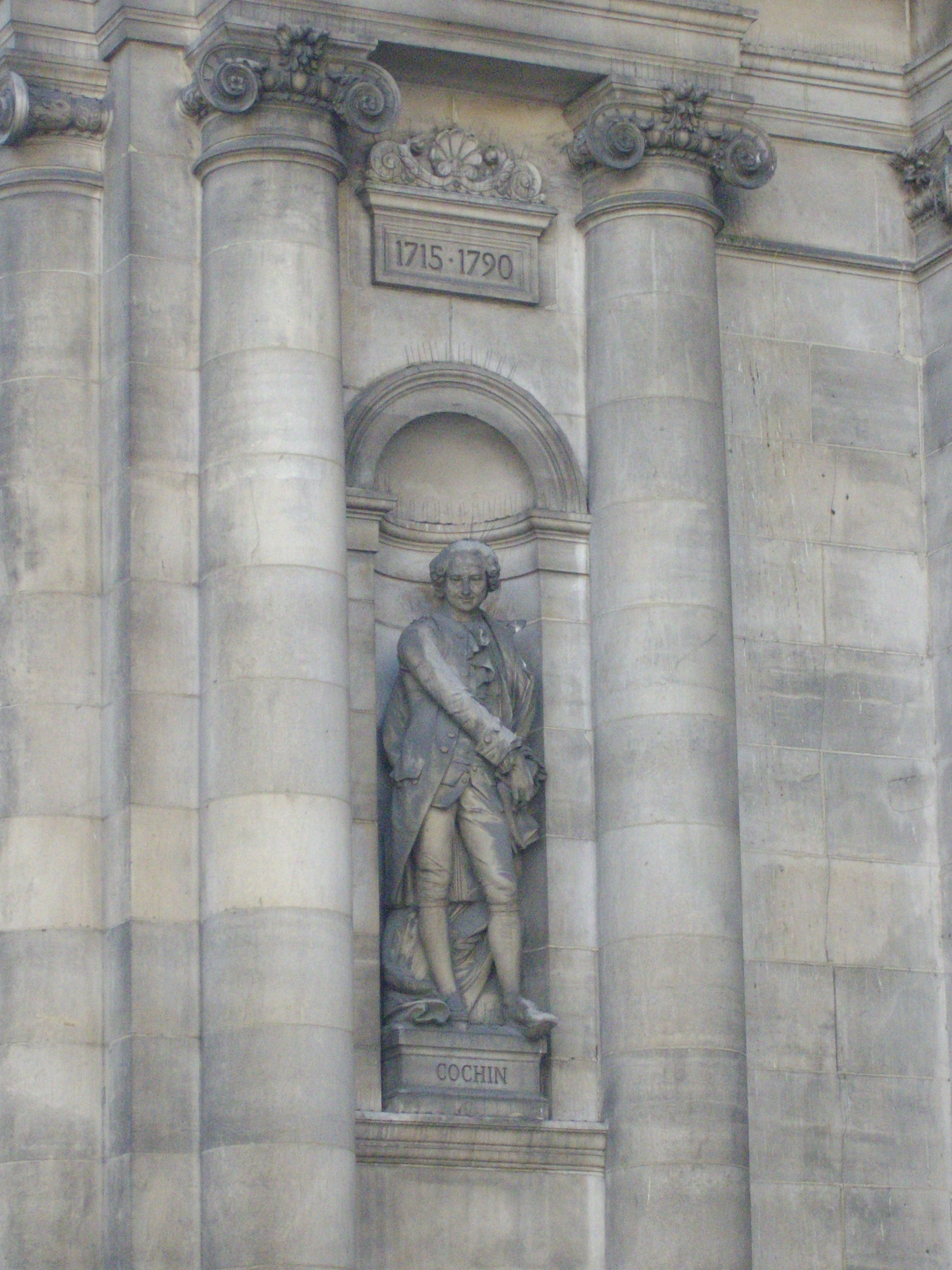 Statues of the City Hall in Paris, France